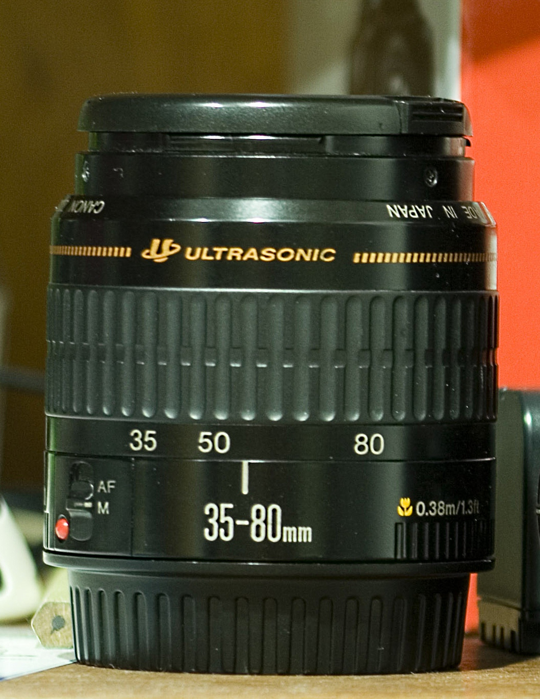 Canon EF 35-80mm USM f4-5.6